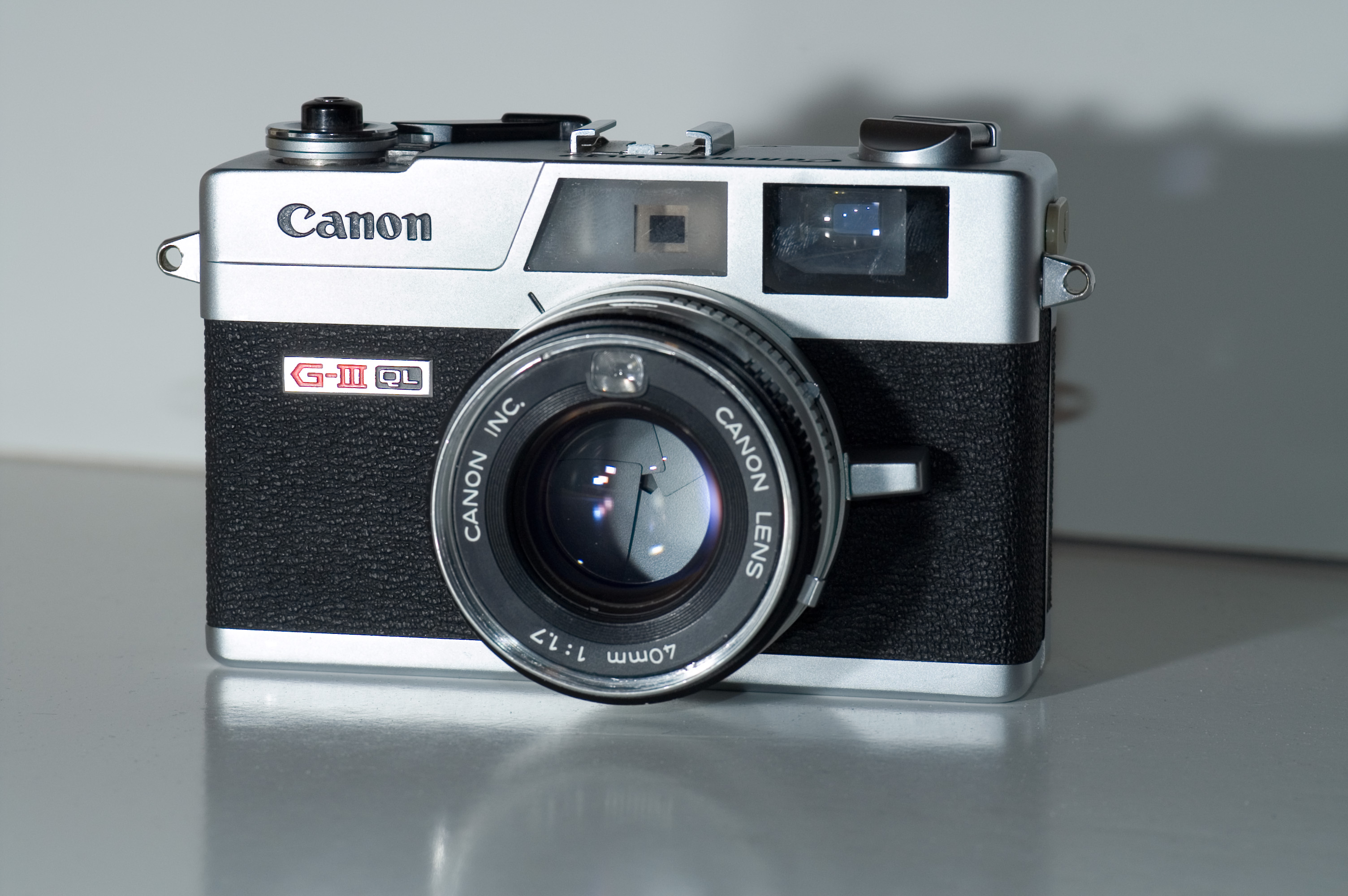 Canonet G-III QL17 compact rangefinder camera